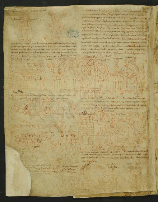 Illustration on medieval manuscript page (Werden, ca. 1000) from Historia Apollonii regis Tyri. See: Apollonius pictus. Egy illusztrált, késő antik regény 1000 körül. / An illustrated, late antique romance around 1000. Ed. Anna Boreczky and András Németh. Budapest, Széchényi National Library, 2011.